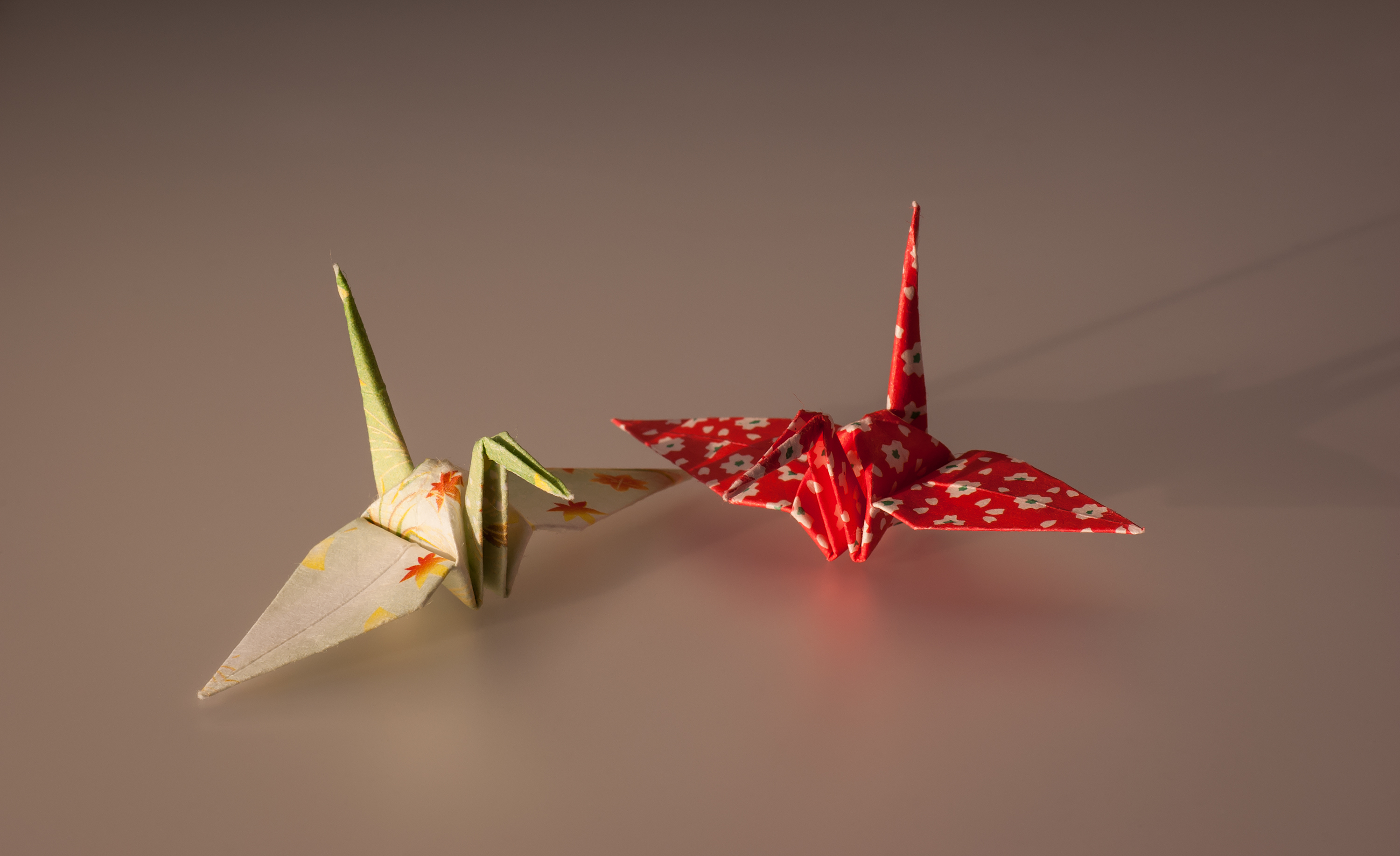 Cranes made by Origami (Orizuru). The height is 35mm.